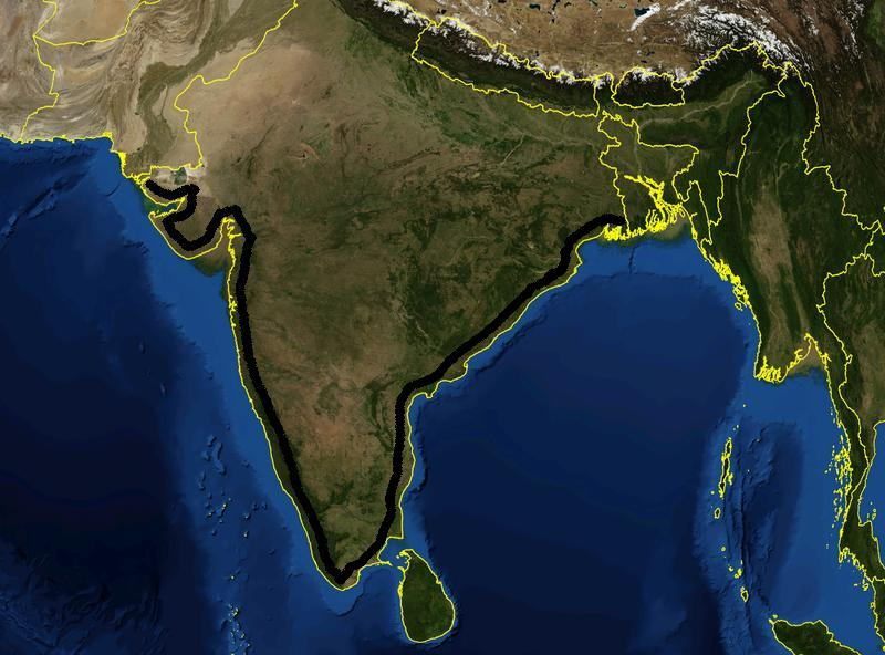 This map shows Coastal India which spans from the south west Indian coastline along the Arabian sea from the coastline of the Gulf of Kutch in its western most corner and stretches across the Gulf of Khambhat, and through the Salsette Island of mumbai along the Konkan and southwards across the Raigad region and through Kanara and further down through Mangalapuram or Mangalore and along the Malabar through Cape Comorin in the southernmost region of South India with coastline along the Indian Ocean and through the Coromandal Coast or Cholamandalam Coastline on the South Eastern Coastline of the Indian Subcontinent along the Bay of Bengal through the Utkala Kalinga region until the Easternmost Corner of shoreline near the Sunderbans in Coastal East India.